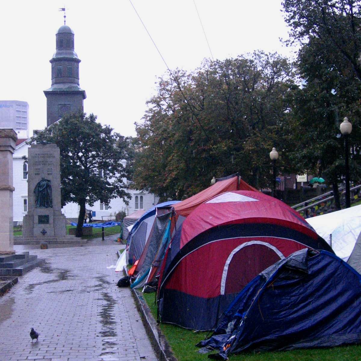 Photo from the Occupy Nova Scotia event in the Grand Parade, Halifax Regional Municipality, October 20, 2011. The uploader estimates there were about 50 tents on site this day. The entire day was characterized by heavy rains. The image was made about noon.